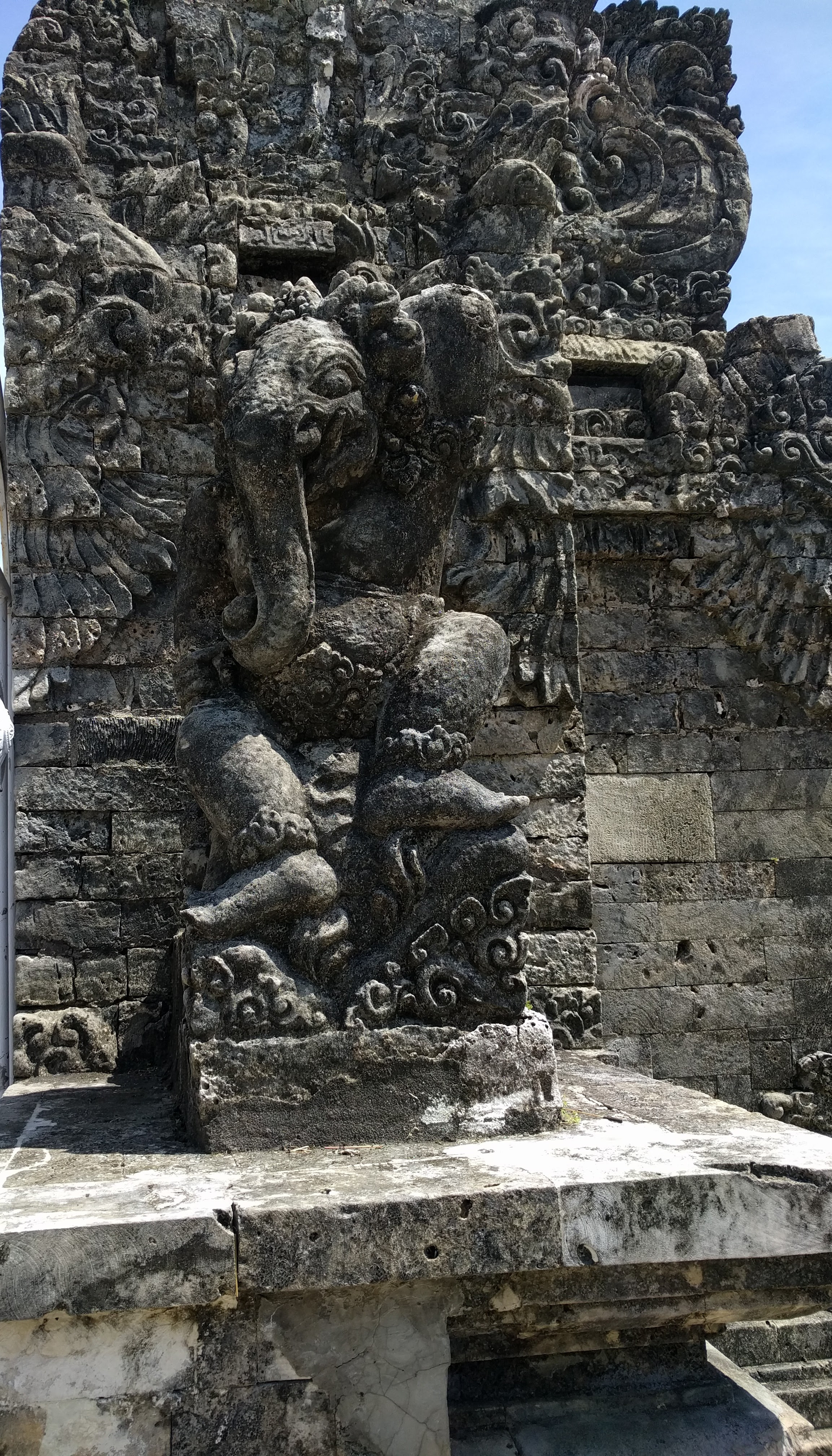 Ganesh statue at Uluwatu Temple